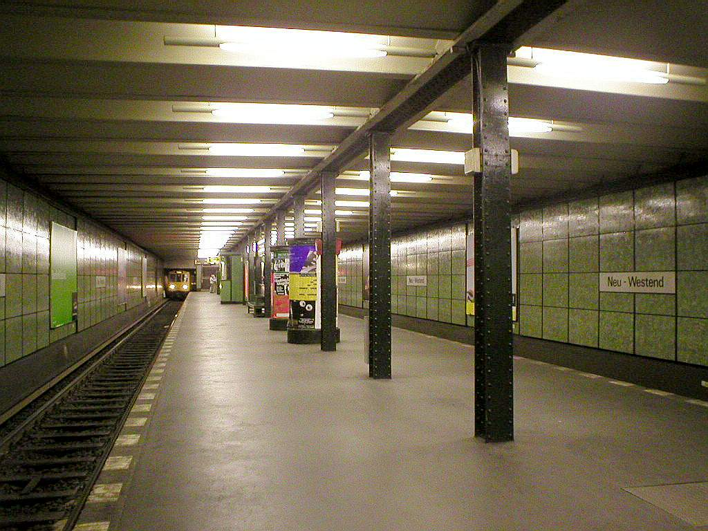 Platform of the Berlin U-Bahn station Neu-Westend, line U2